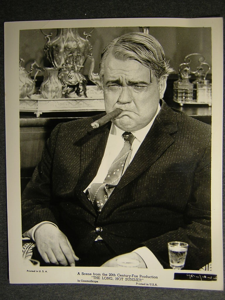 Publicity portrait of Orson Welles for The Long, Hot Summer